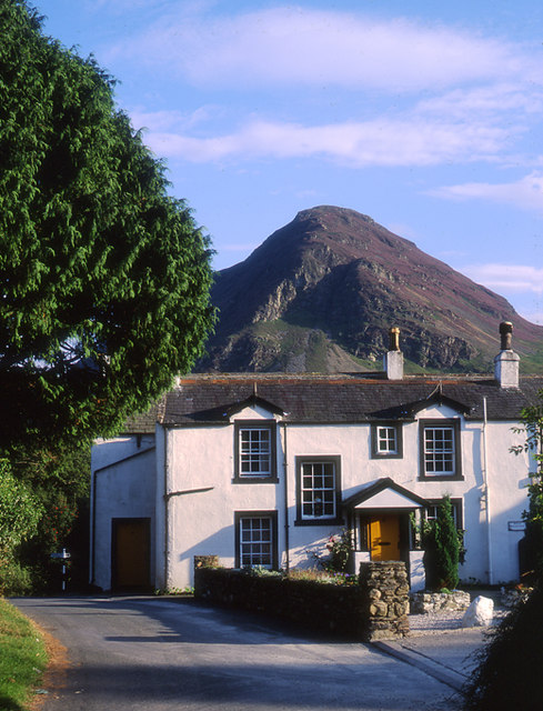 The Kirkstile Inn, at Loweswater in the English county of Cumbria. Mellbreak can be seen towering above the hotel. For more information see the Wikipedia articles Loweswater, Cumbria and Mellbreak.